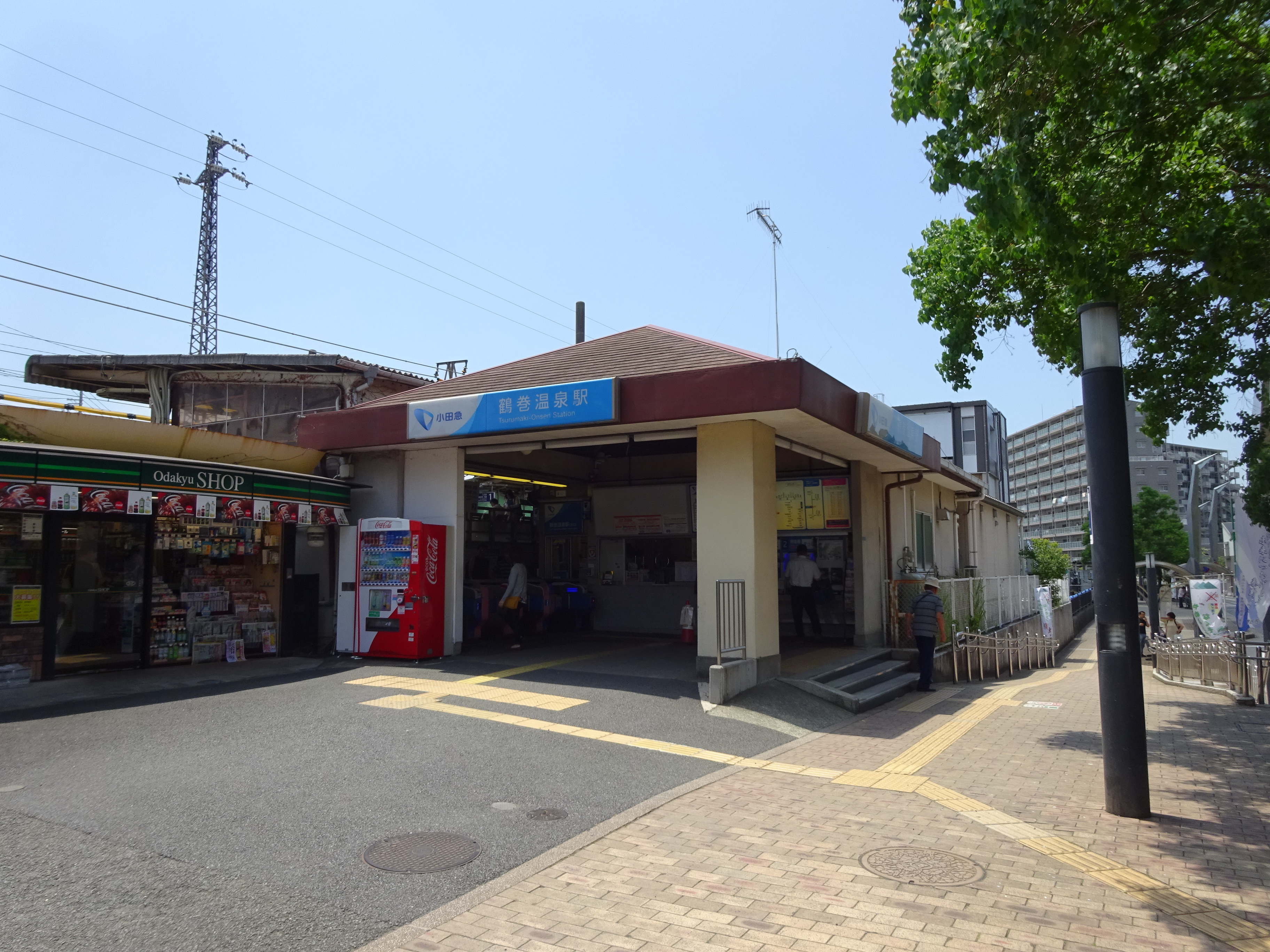 The north entrance to Tsurumaki-Onsen Station